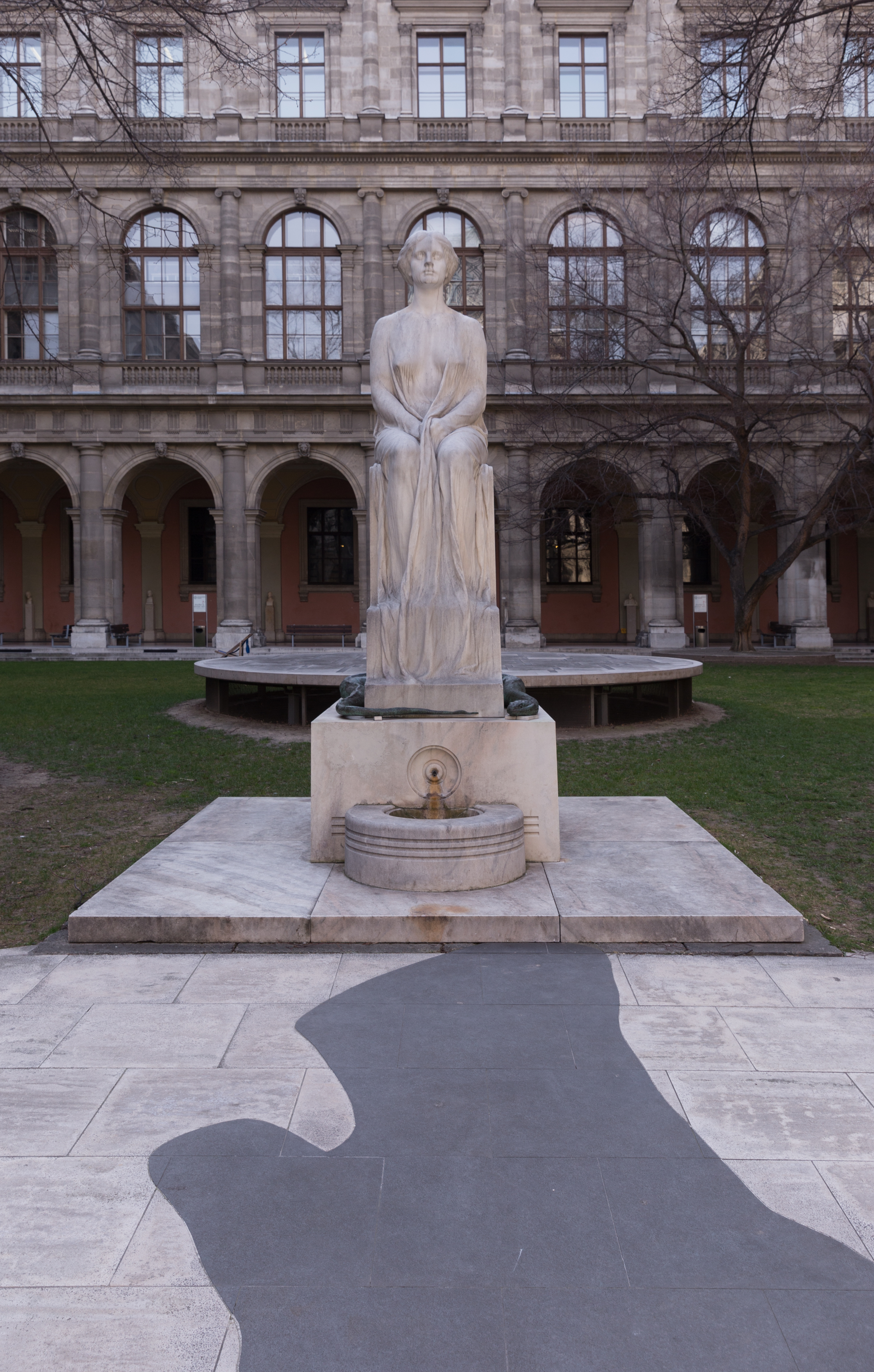 Castalia fountain, Marble, in the Arkadenhof of the University of Vienna, Artist: Edmund Hellmer (1850-1935), unveiled 1910